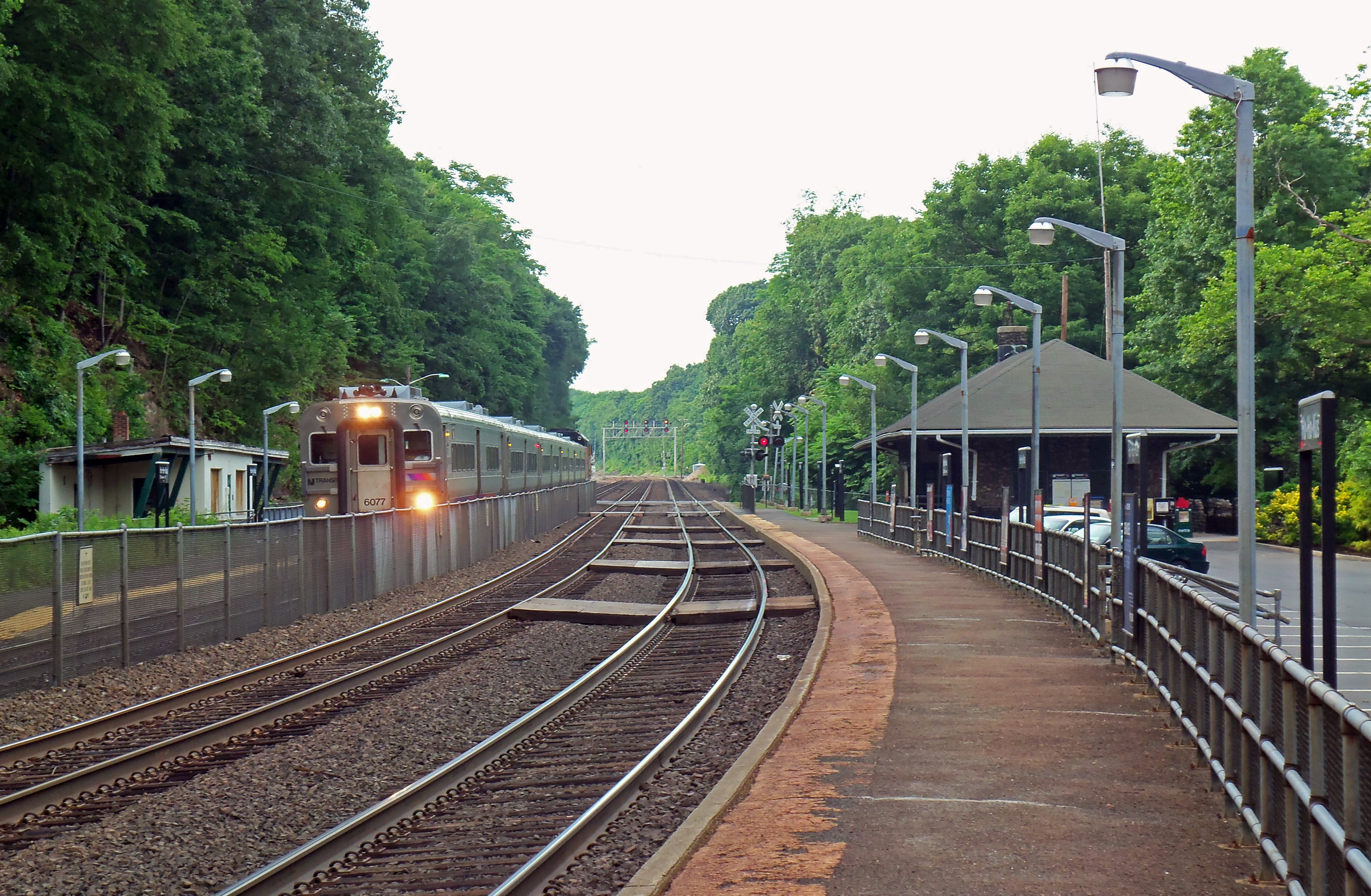 NJ Transit train bound for Hoboken Terminal arriving at Ho-Ho-Kus station, seen from south end of platform